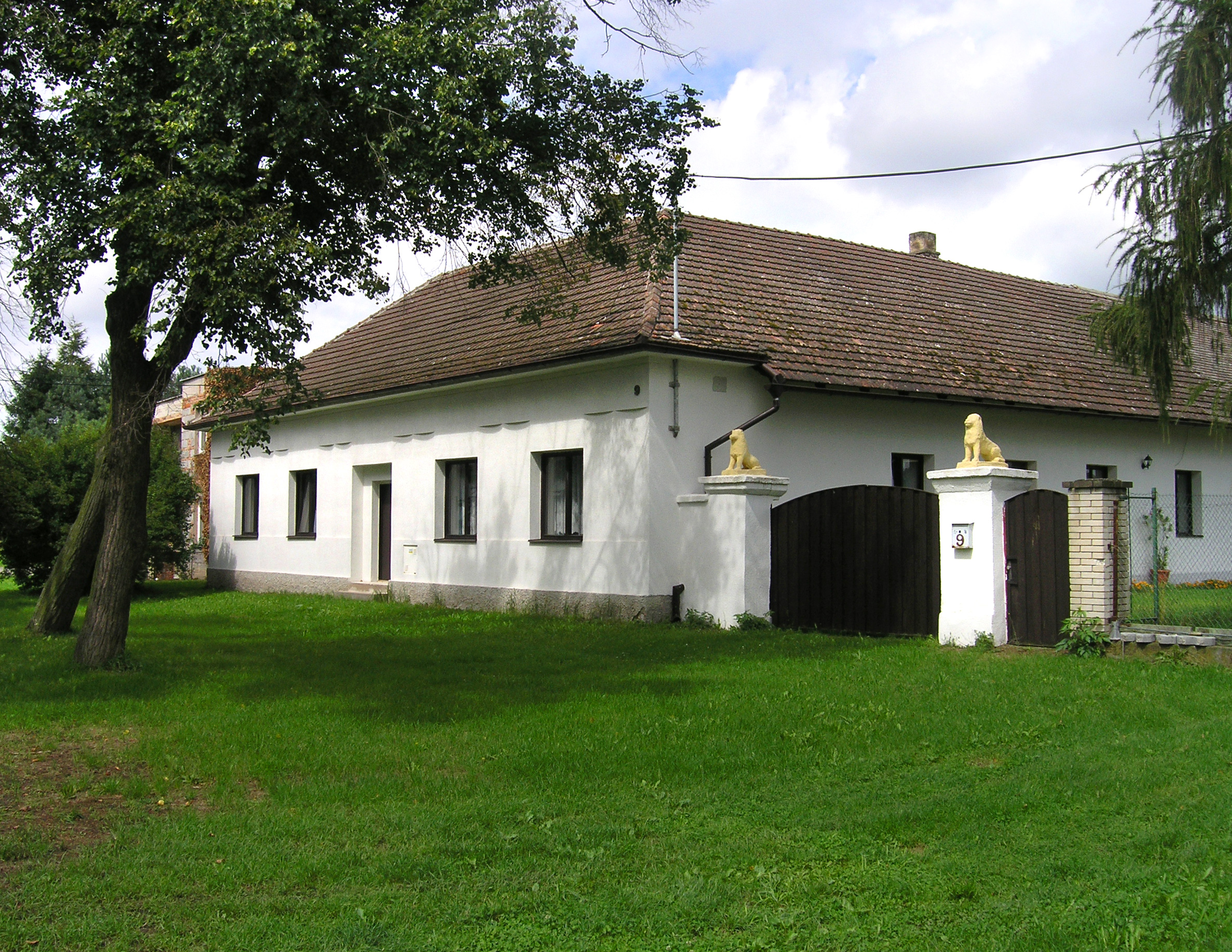 Lišice, part of Svatý Mikuláš village, Czech Republic